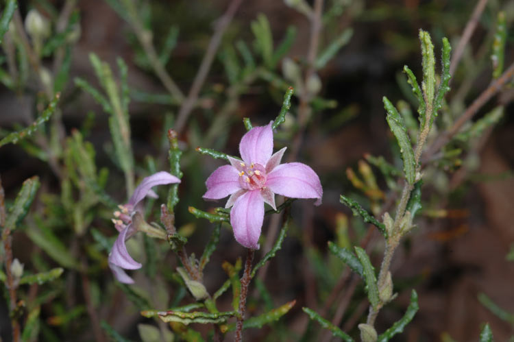 Foliage and flowers of Boronia repanda in the Australian National Botanic Gardens